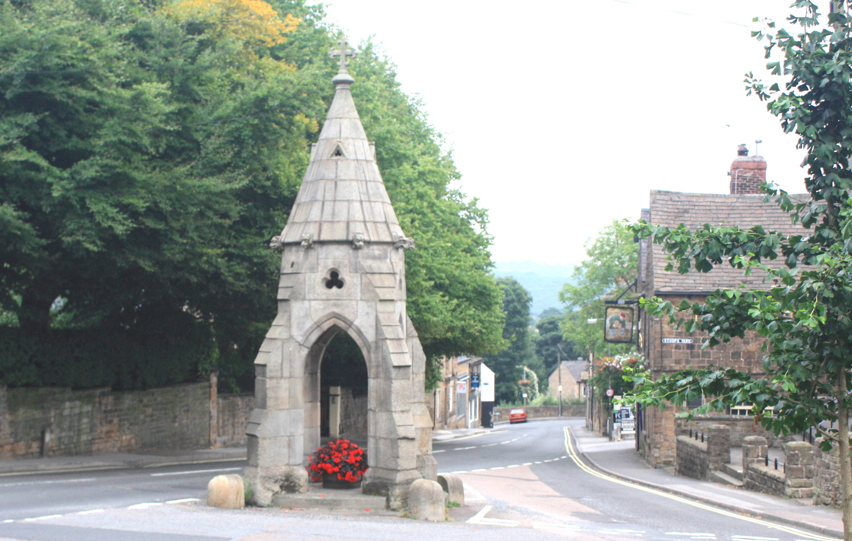 The Peel Monument in Dronfield, Derbyshire, England